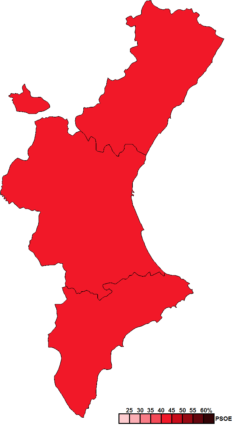 Provincial results for the 1991 Valencian regional election.